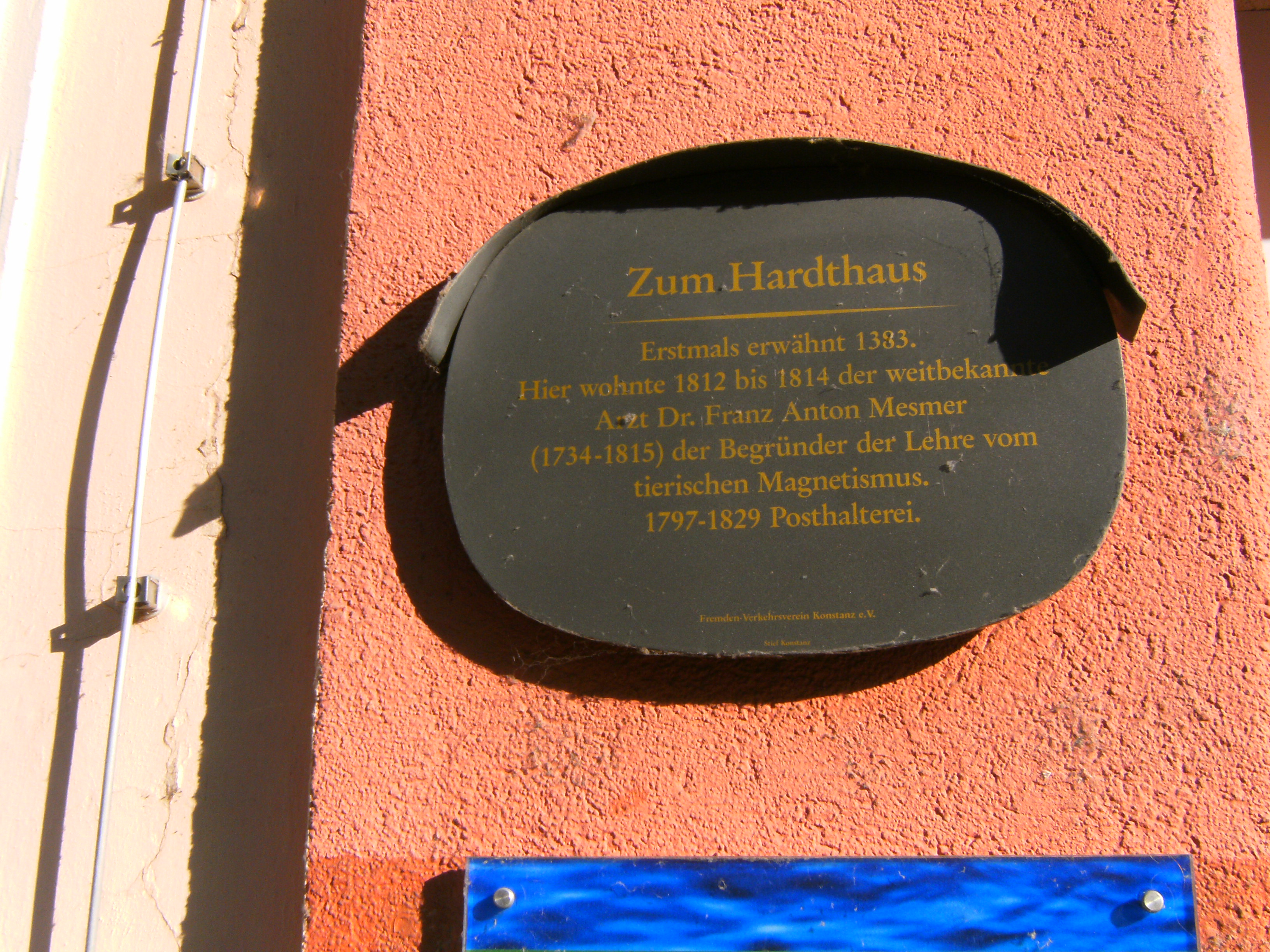 Plaque at house "Zum Hardthaus", Hussenstraße 17, Konstanz, Germany